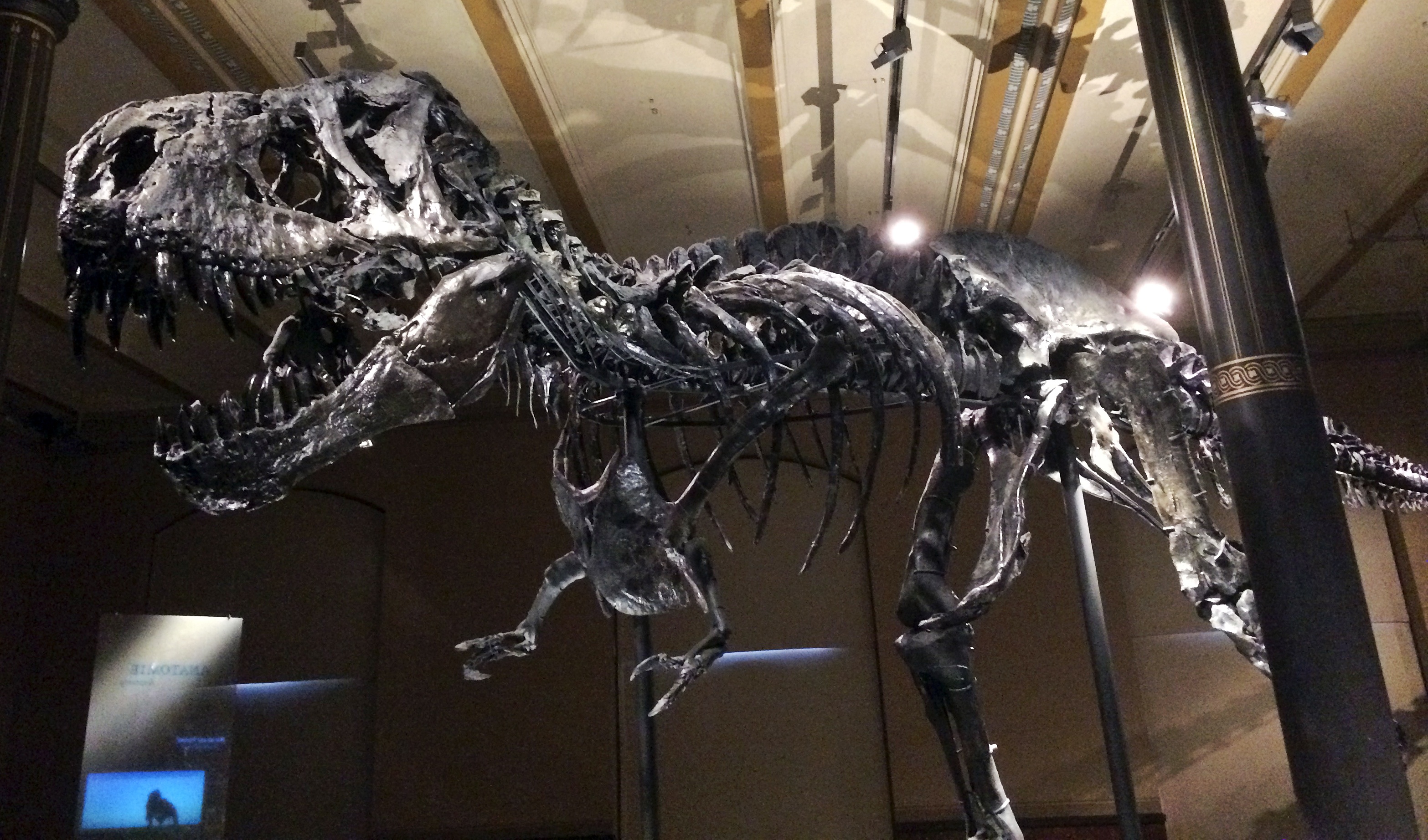 Tristan, Tyrannosaurus rex at Museum für Naturkunde, Berlin